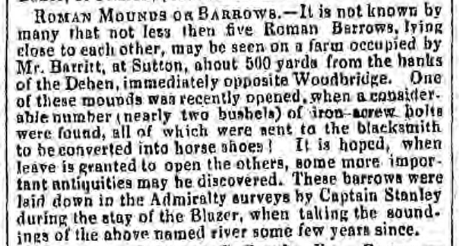 Notice that appeared in the 24 November 1860 edition of the Ipswich Journal describing the excavation of a Sutton Hoo burial mound